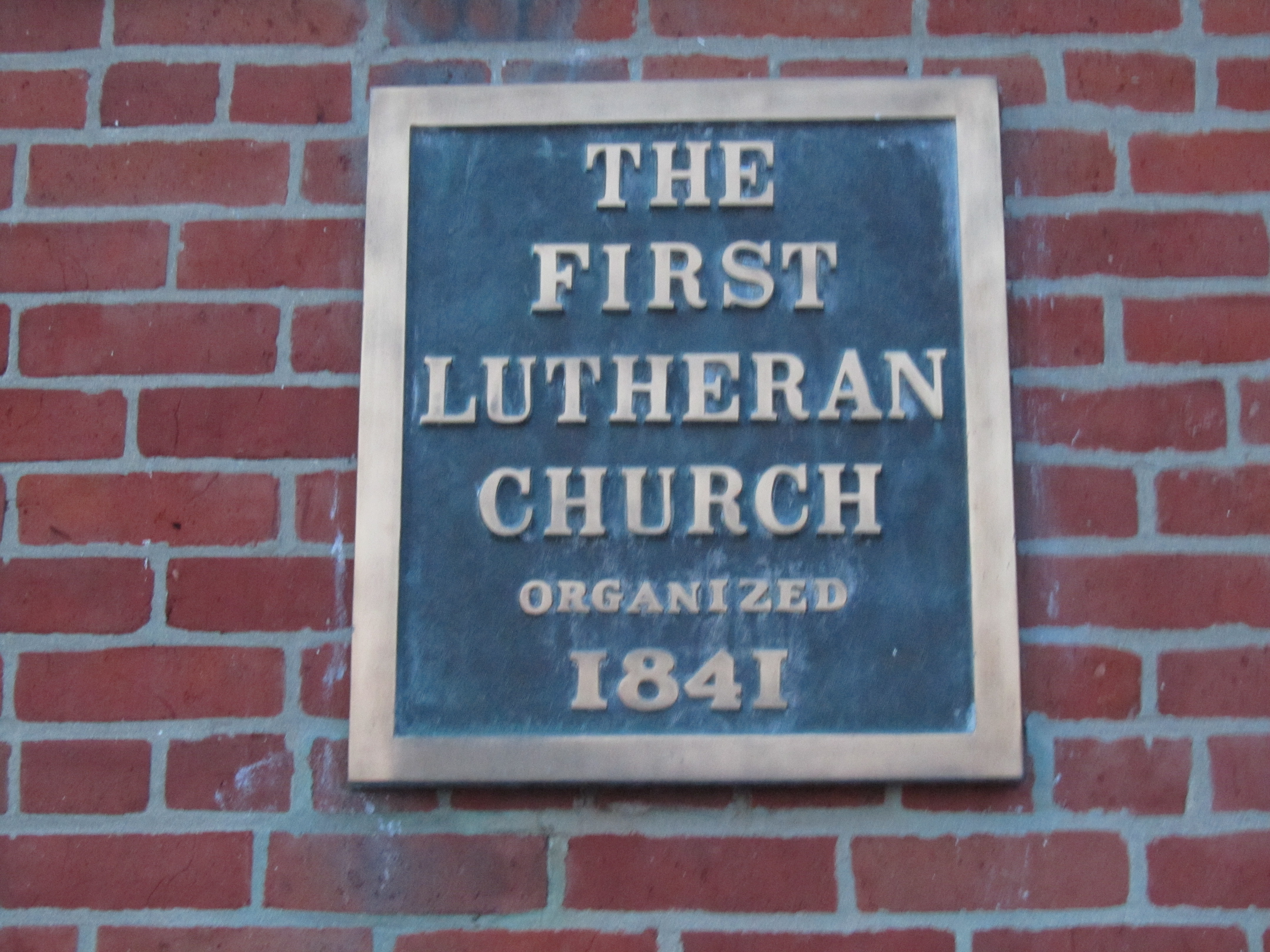 The plaque on the front of First Lutheran Church